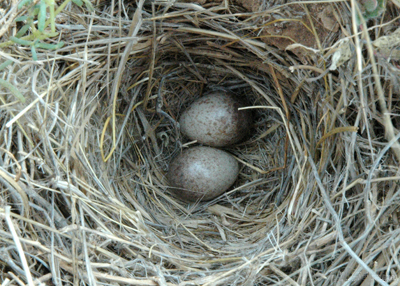 Colour-ringed Razo Lark (Alauda razae) eggs.